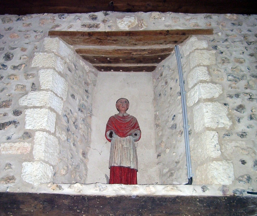 Statue of Saint Charles Borromeo 17th century in the church Saint-Martin of Bazoques (Eure, Haute-Normandie) in France.